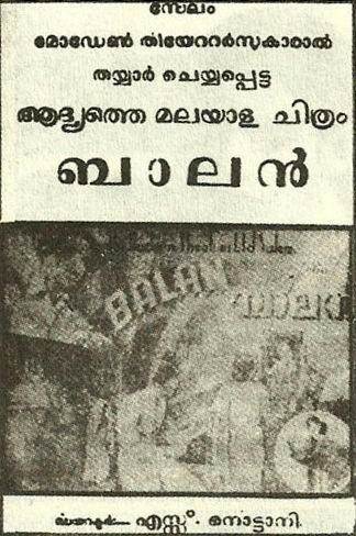 A promotional notice of the 1938 film Balan